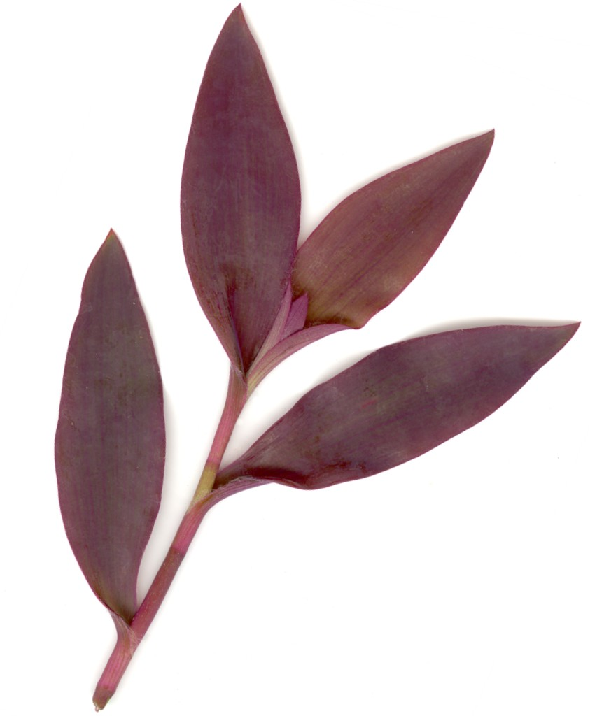 Front view of leaves from the Tradescantia pallida plant.